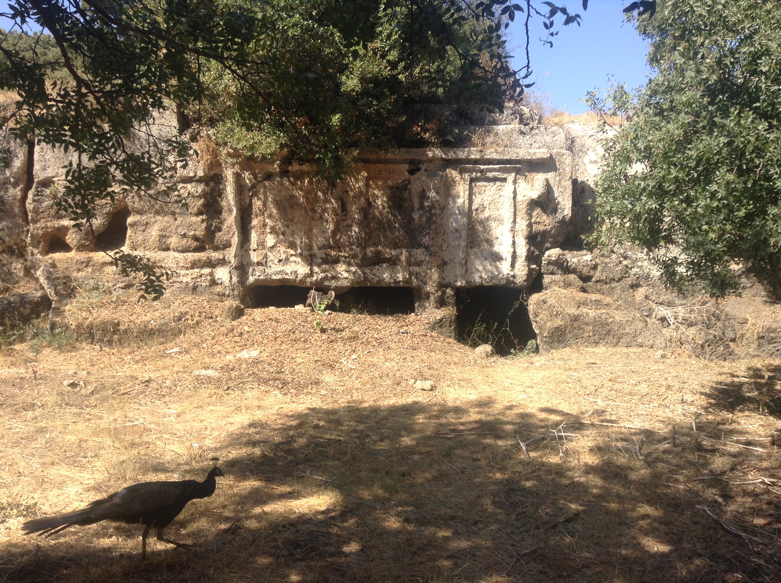 Outside view of hellenic tomb, hellenic necropolis in Rodini park, Rhodes.